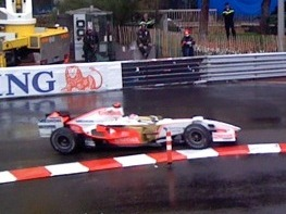 Adrian Sutil through Sainte Devote at the 2008 Monaco Grand Prix